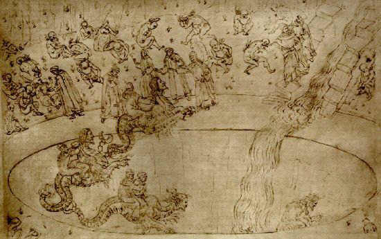 Inf 17